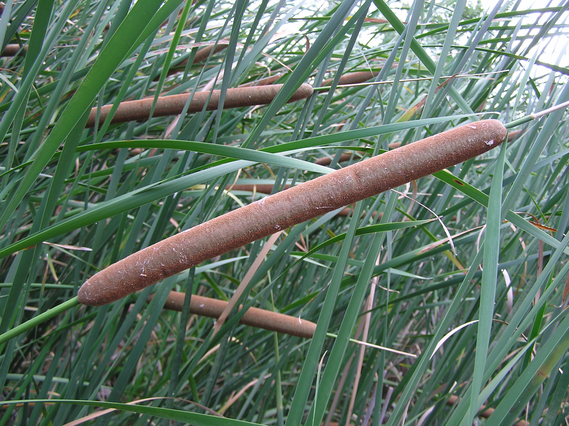 Typha austro-orientalis Mavrodiev. Habitat: edges of Volgograd Reservoir (Volga river). Engelssky District, Saratov Oblast, Russia.